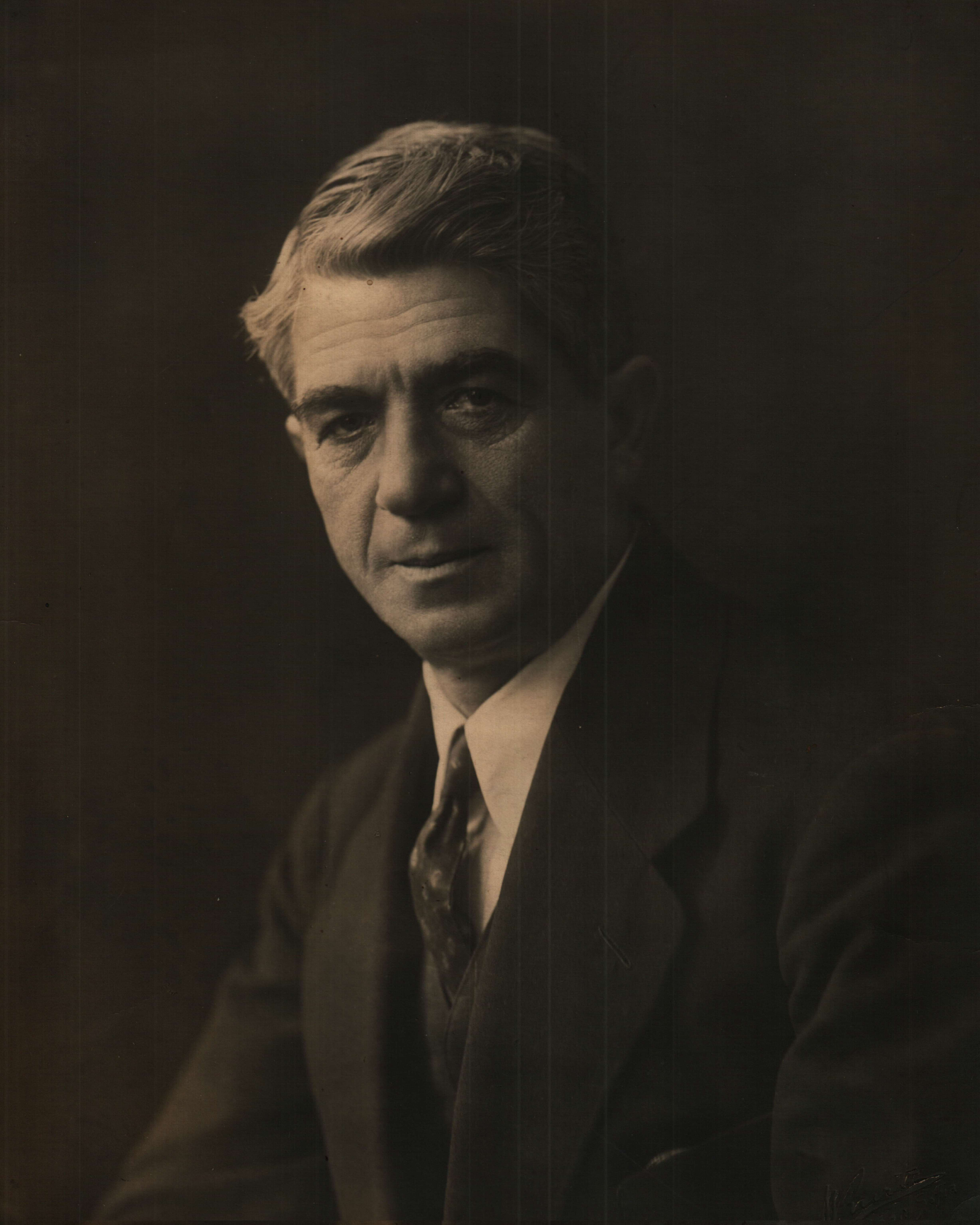 Bulgarian actor Vladimir Nikolov (1877-1929)